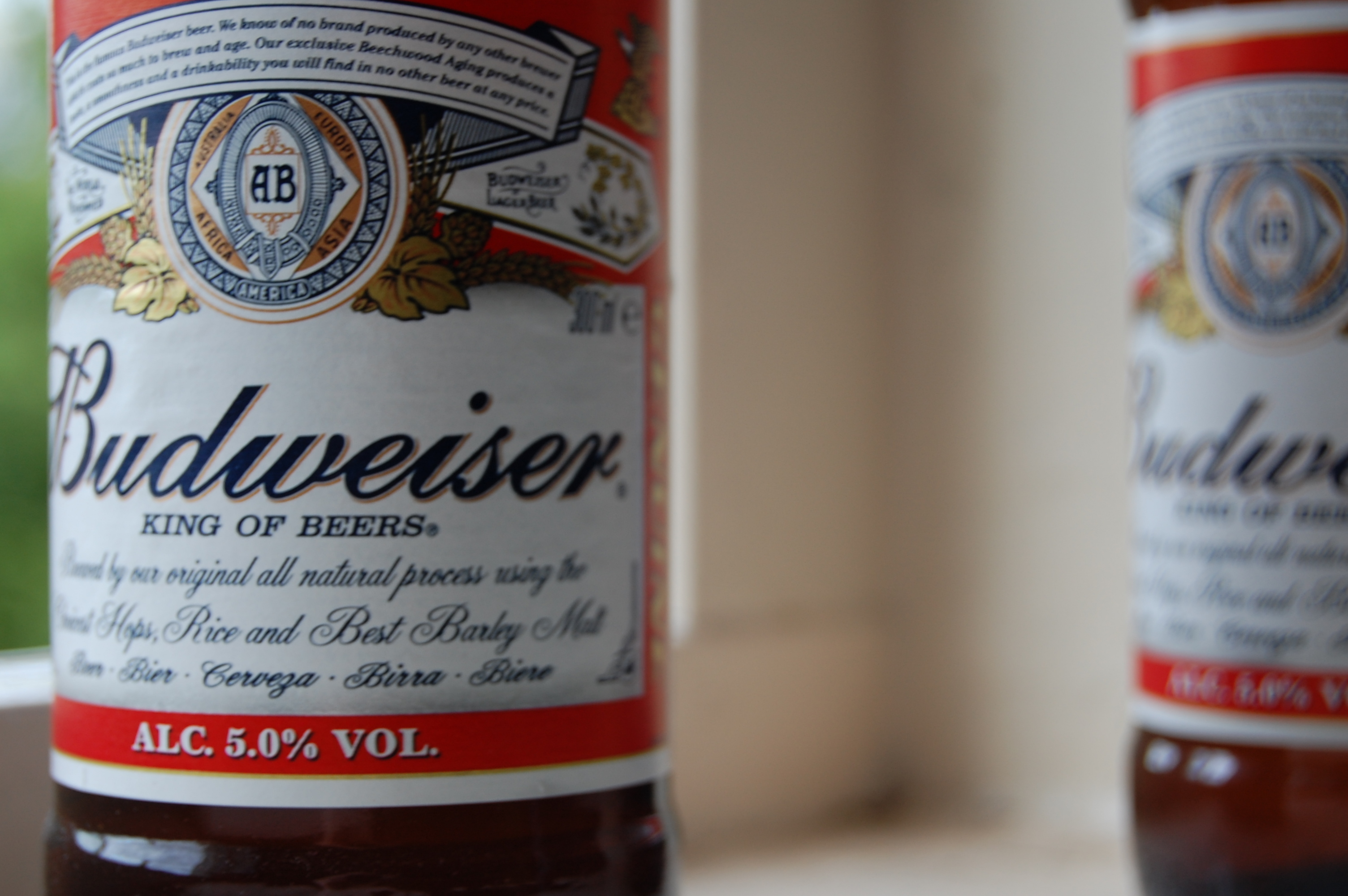 Bottles of american beer Budweiser from Anheuser-Busch.